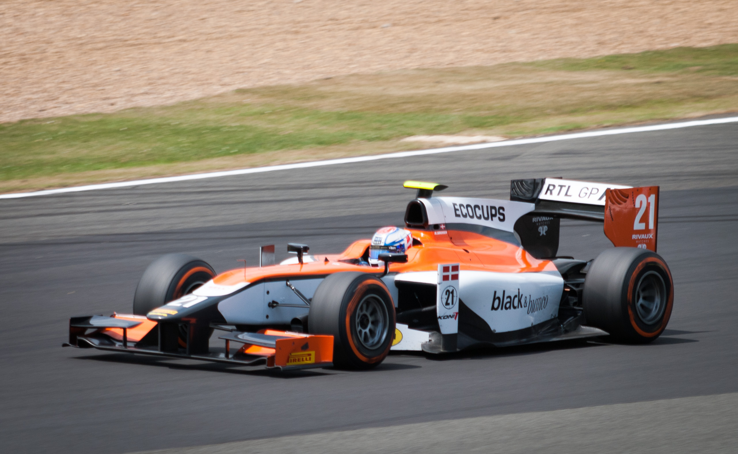 Marco Sørensen driving for MP Motorsport at Silverstone. Round 5 of the 2014 GP2 Series Championship.